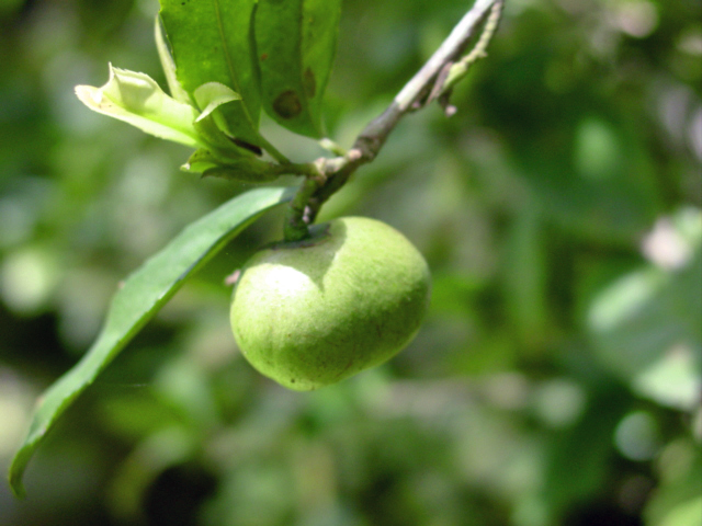 Seed bearing fruit of Camellia sinensis. Plant cultivated in Rio de Janeiro Botanical Garden. Photo by M. A. P. Accardo Filho.